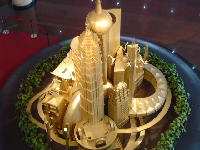 Monument at the entrance hall of the Shanghai Urban Planning Exhibition Hall. It depicts such Shanghai landmarks as the Jingmao Tower Photo taken by Sumple on 29/12/2003. As a courtesy, and entirely voluntarily, please notify me if you change this image or its description.